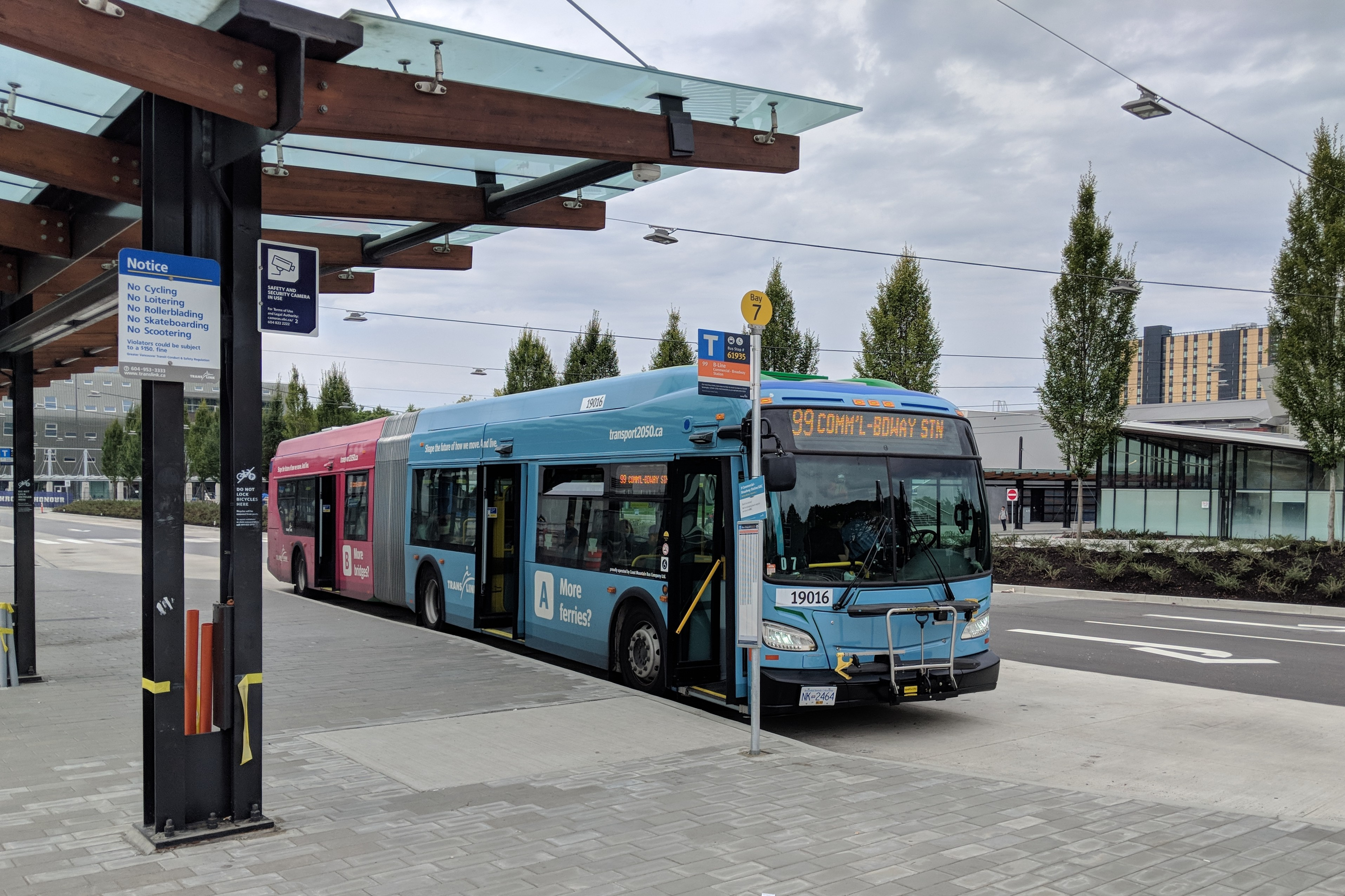 Bus bay 7 at the north loop of UBC Exchange is allocated to the 99 B-Line. Photo taken in September 2019.